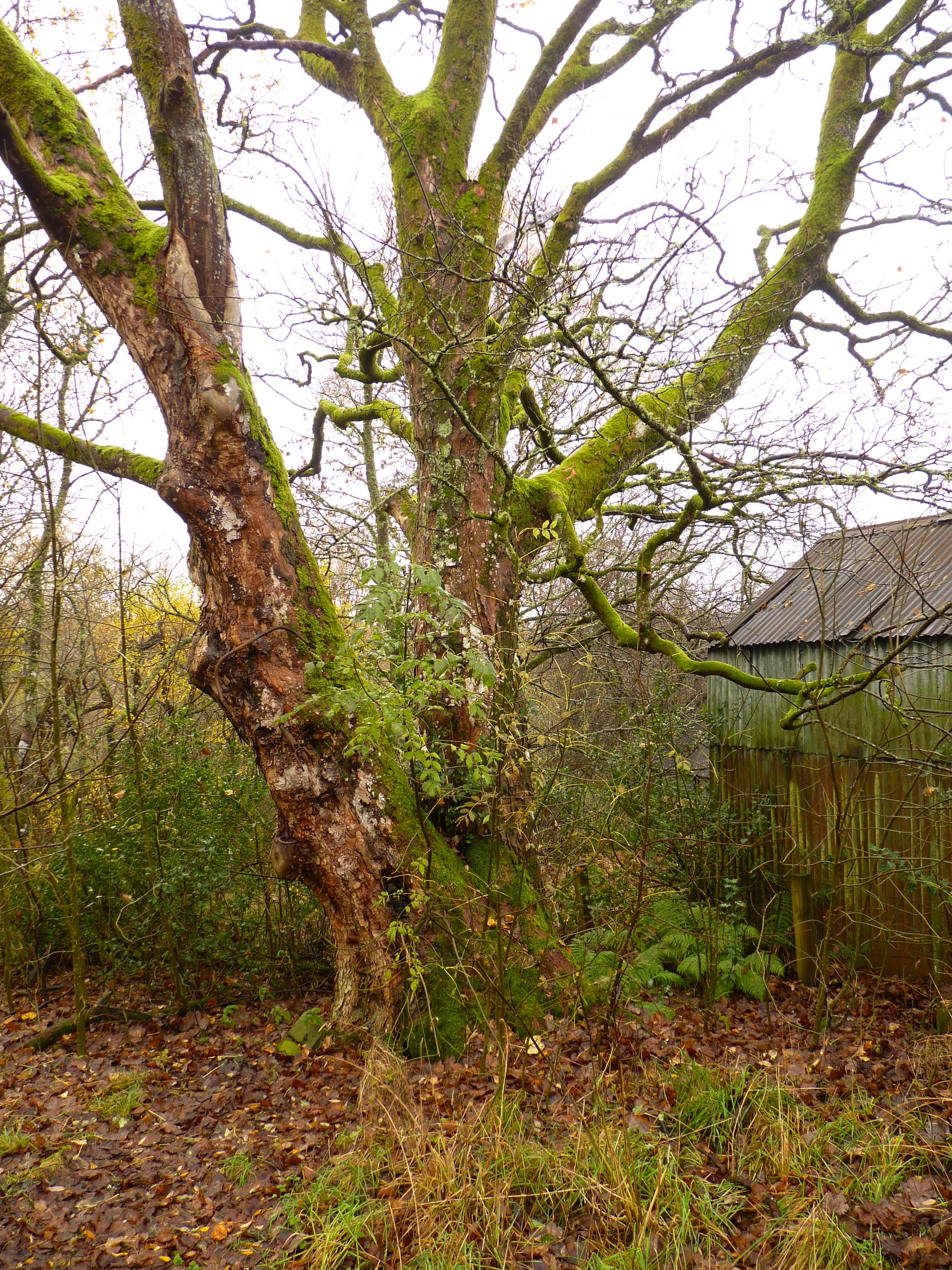 The metal-eating tree, Brig O'Turk